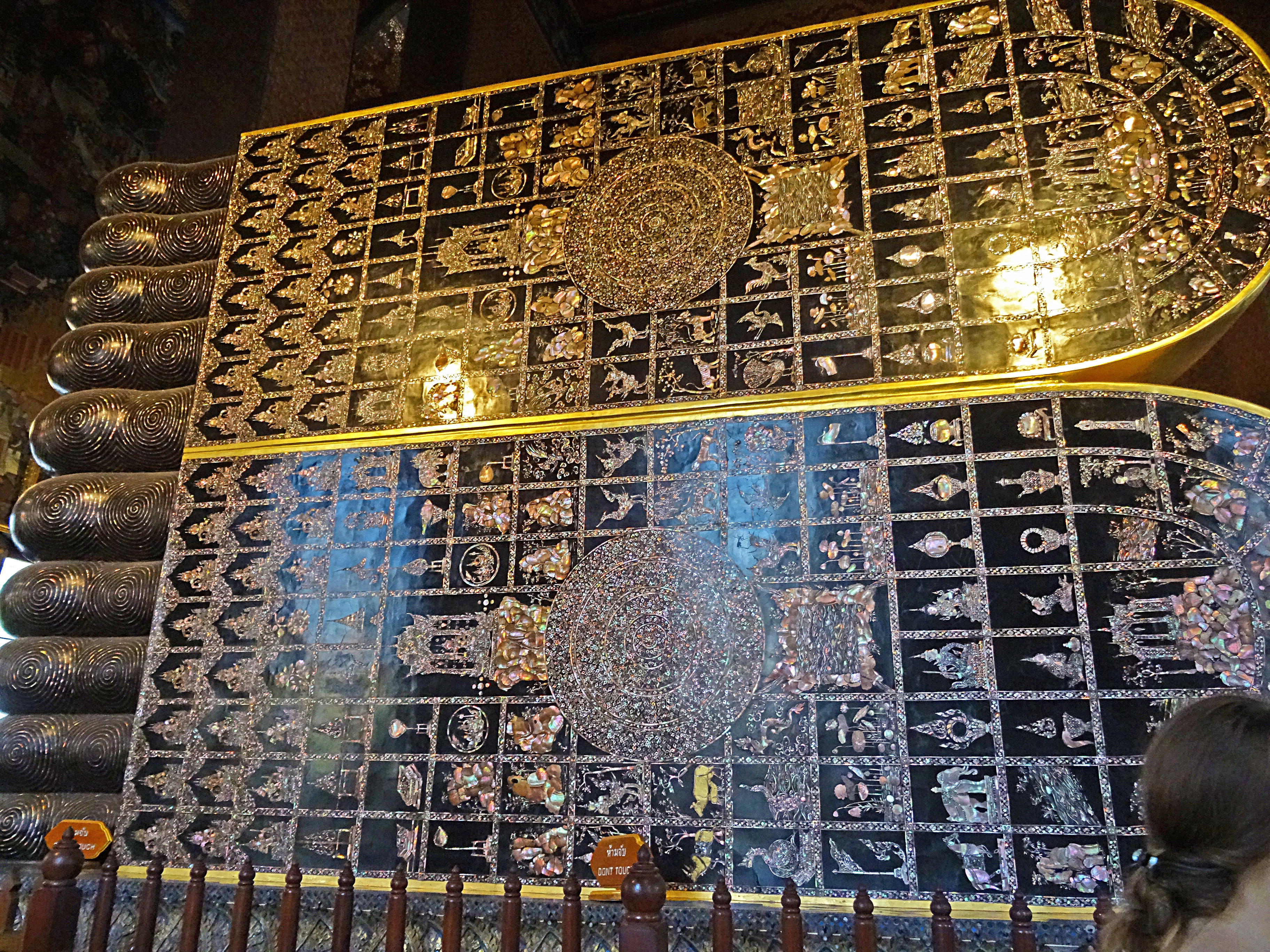 Buddha's soles with ornate mother-of-pearl inlays in the Temple of the Reclining Buddha Wat Pho in Bangkok